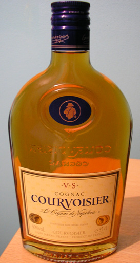 A Courvoisier Bottle